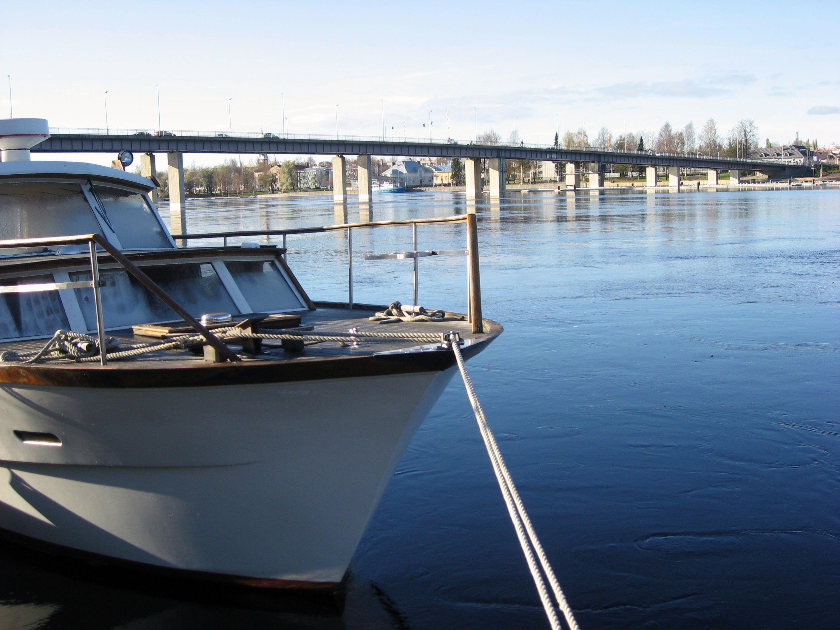 Suvantosilta bridge crossing Pielisjoki river in Joensuu, Finland